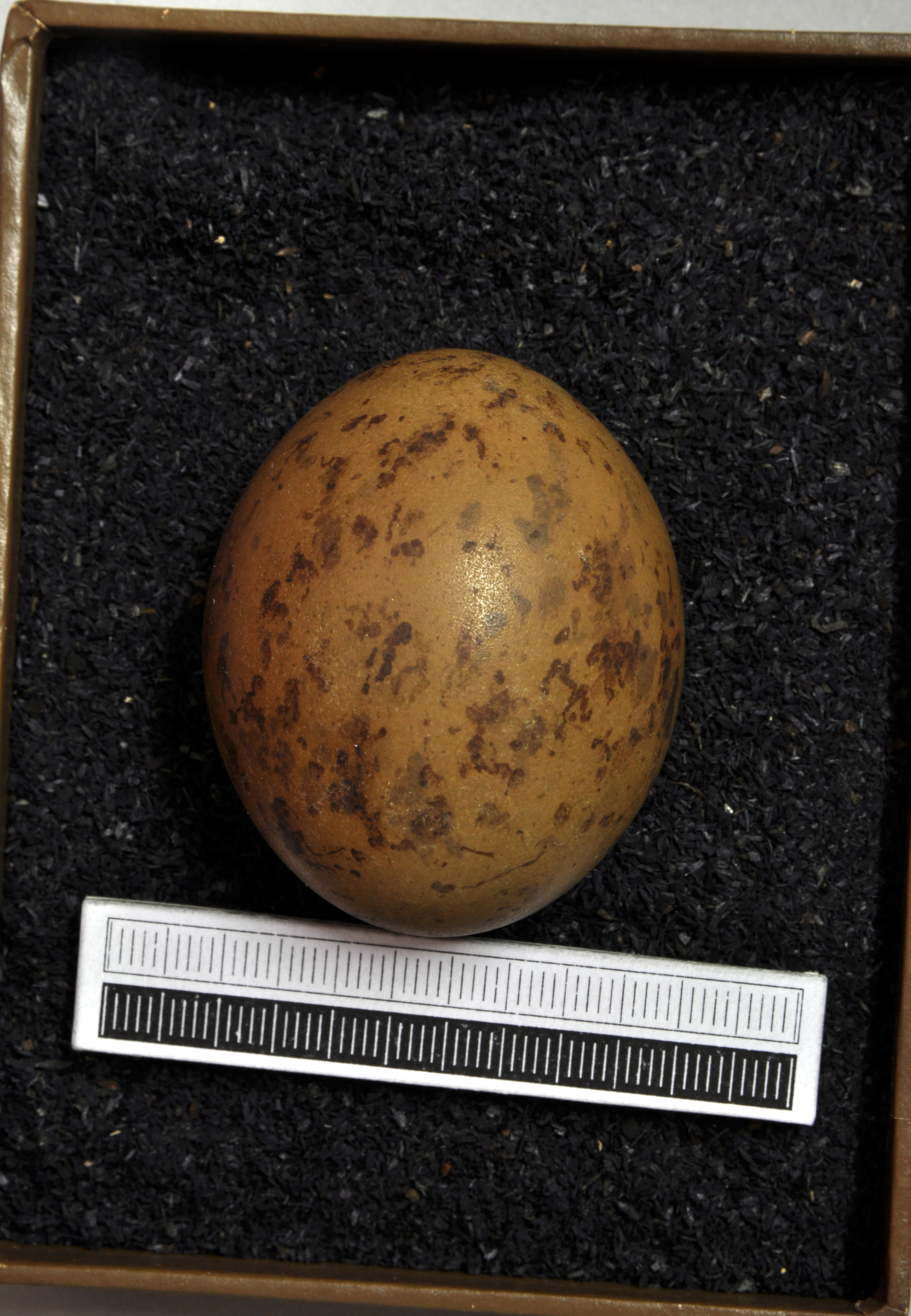 Trappe Eupodotis , egg, Coll. Museum Wiesbaden